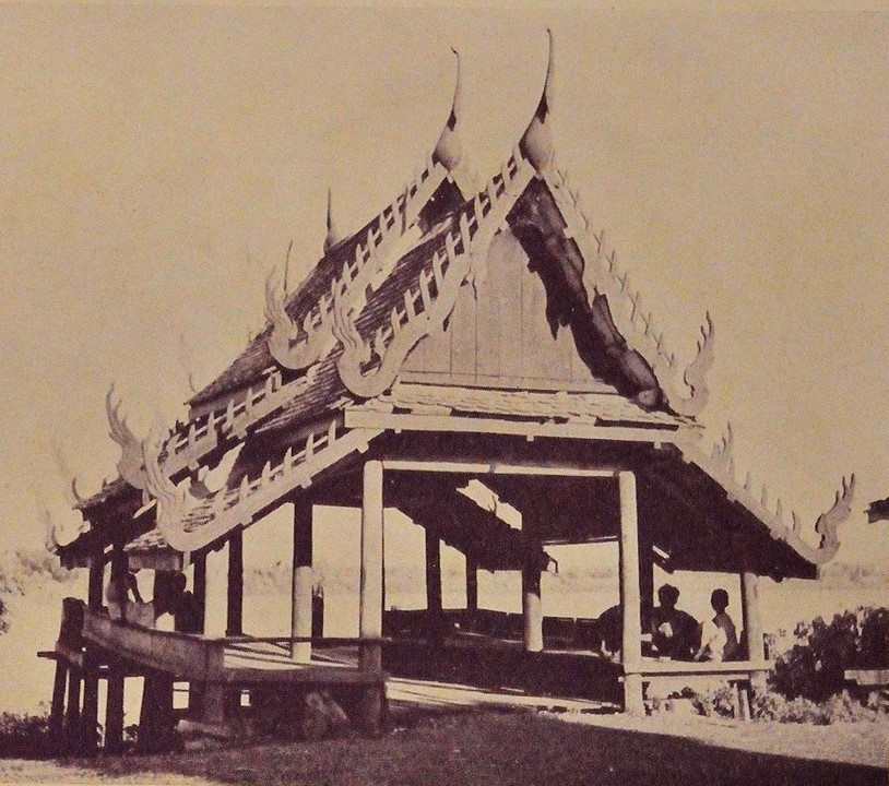 Along the riverside in 1930